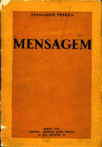 Mensagem, Fernando Pessoa's only book published while he was living.